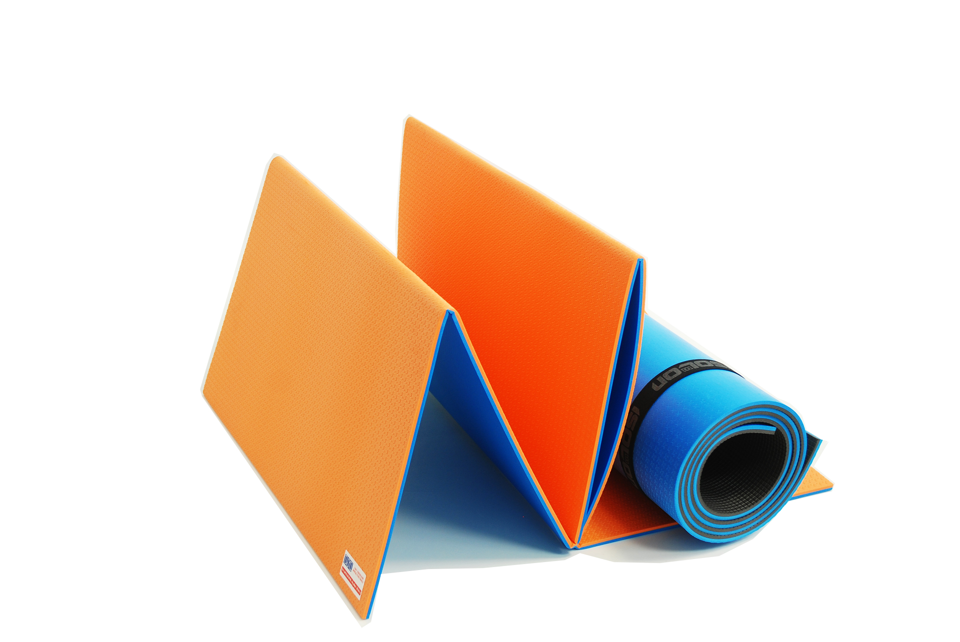 Example of a product from physically crosslinked polyethylene foam. Tourist carpets.